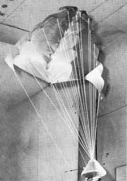 Rogallo's flexible wing, a parachute alternative for space capsule recovery system (Gemini & Apollo) developed by Francis Rogallo at NASA. NASA file press release